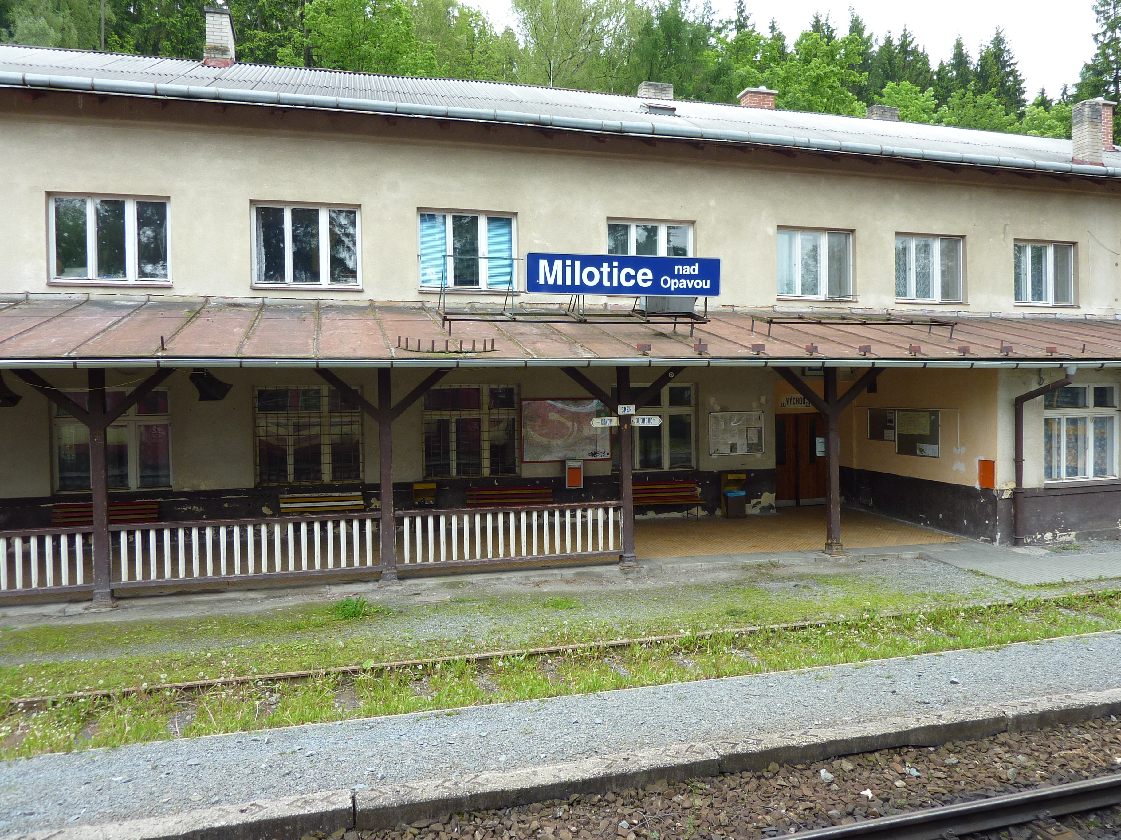 Railway station Milotice nad Opavou in Czech Republic